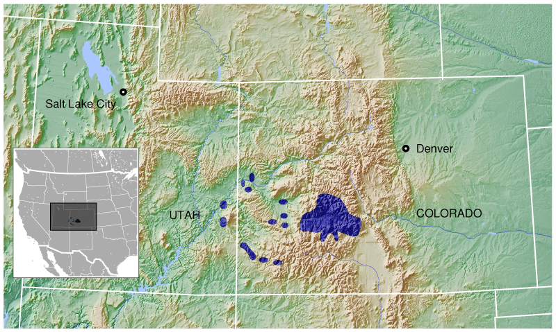 Geographical distribution of the Gunnison Grouse Centrocercus minimus. The map was created using the Generic Mapping Tools, GMT, version 5.1.2.